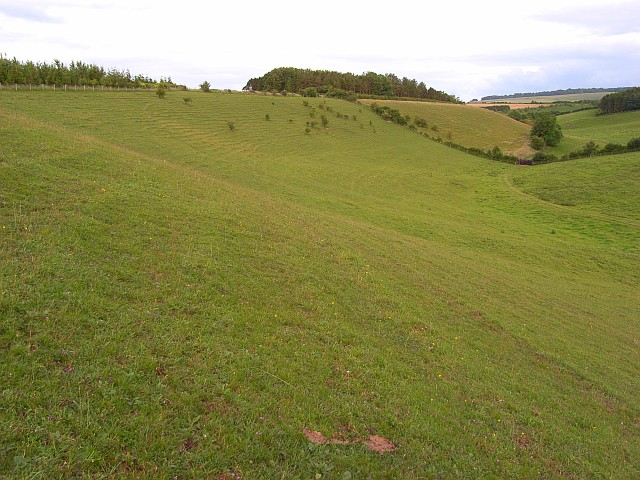 Downland, Steeple Langford This dry valley is the western branch of Clifford Bottom.